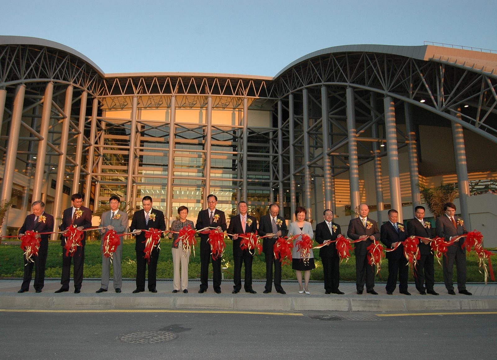 Grand Opening of Nave Desportiva dos Jogos da Ásia Oriental de Macau